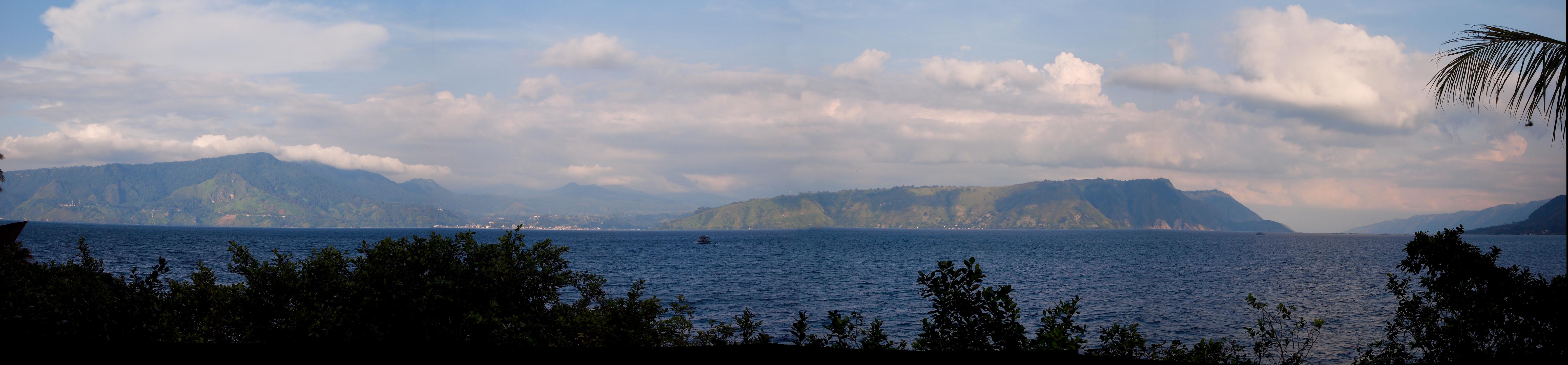 View of Parapat which is on the Uluan Peninsular as seen from town of Tuk Tuk on Samosir. The hills in the distance is actually the wall of the Porsea caldera